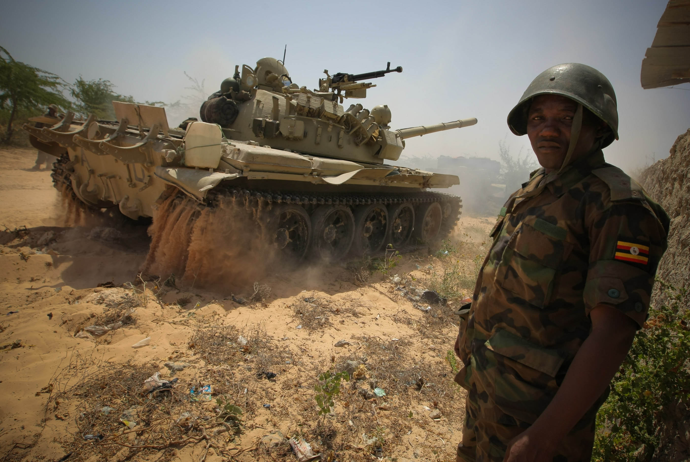 A Ugandan soldier serving with the African Union Mission in Somalia (AMISOM) stands 20 January as a tank passes following an advance with the Somali National Army (SNA) to capture Mogadishu University in insurgent Al Shabaab territory. The operation saw SNA forces supported by AMSIOM push 3.5km further north from their previous forward defensive line along the industrial road to take the strategically important area of and around Mogadishu Univeristy, the very furthest northern point of the Somali capital and where the Al Qaeda-linked Al Shabaab planned and carried out attacks against the African Union mission, the Transitional Federal Government (TFG) and targets within the Somali capital.. AU-UN IST PHOTO / STUART PRICE.